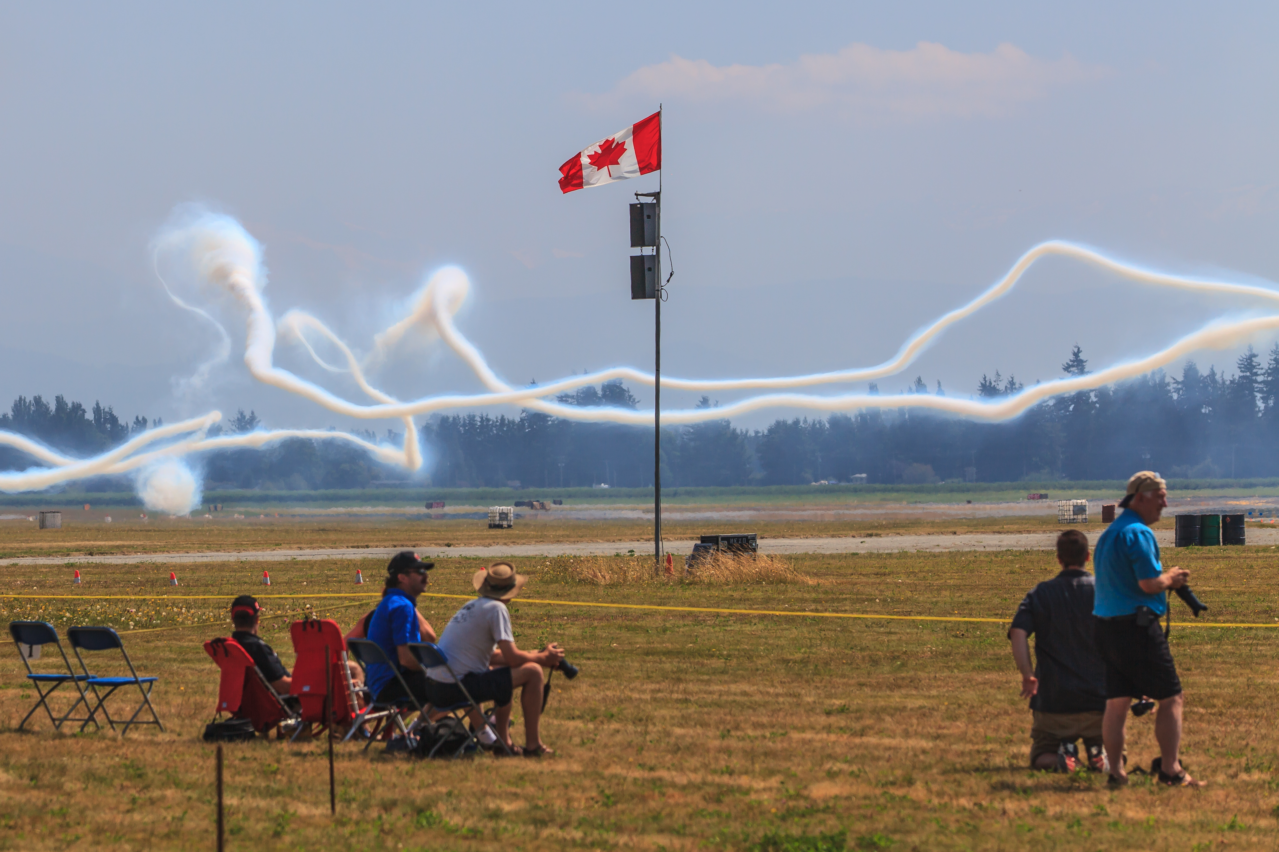 2011 Abbottsford Air Show